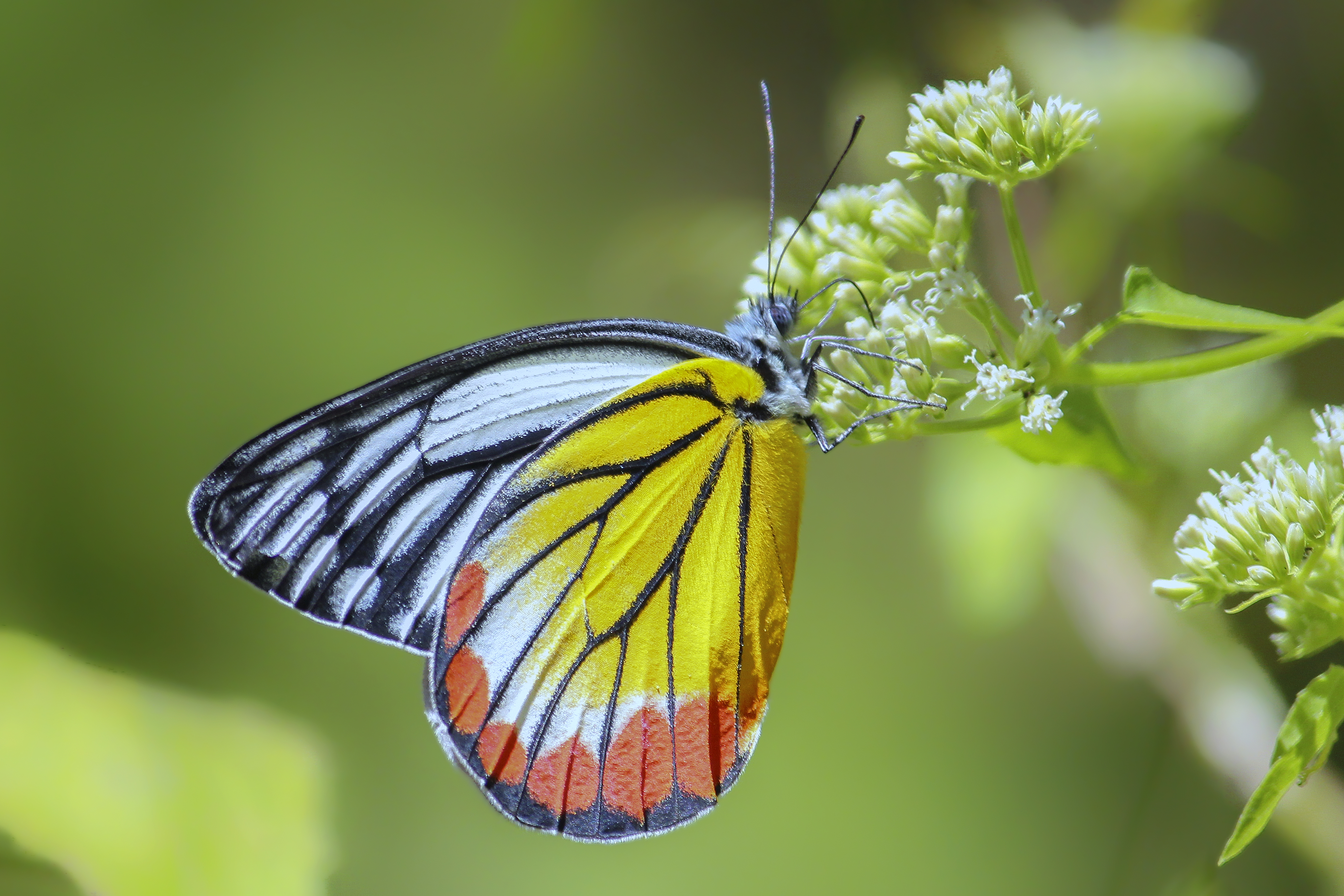 Delias hyparete Linnaeus, 1758 – Painted Jezebel. Subspecies: Delias hyparete indica Wallace, 1867 – Indian Painted Jezebel